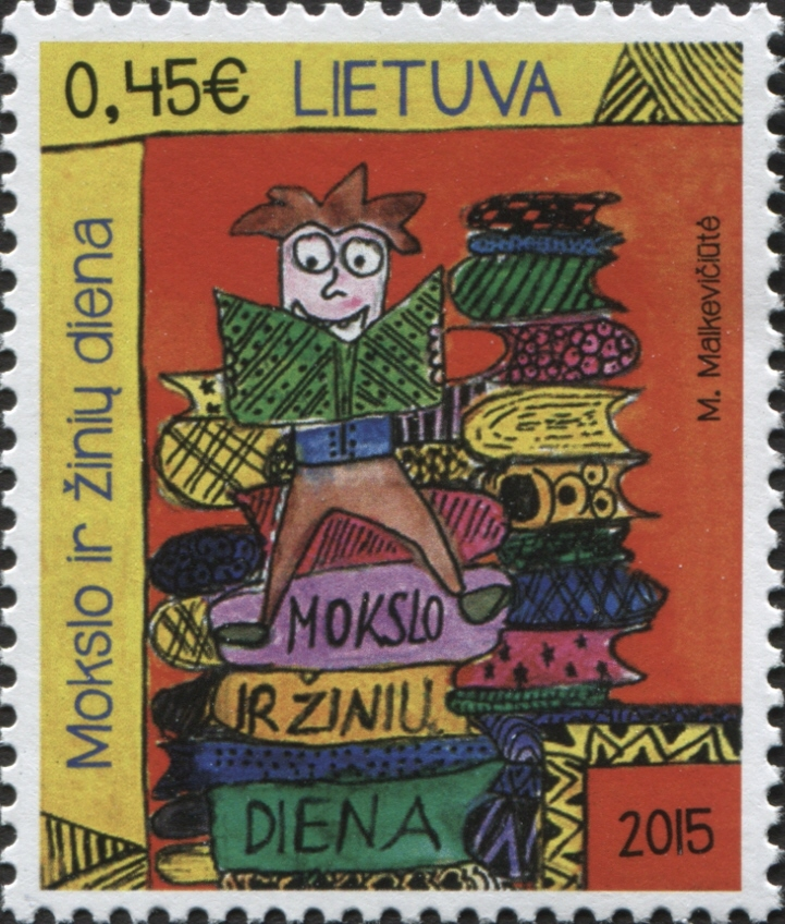 Stamps of Lithuania, 2015